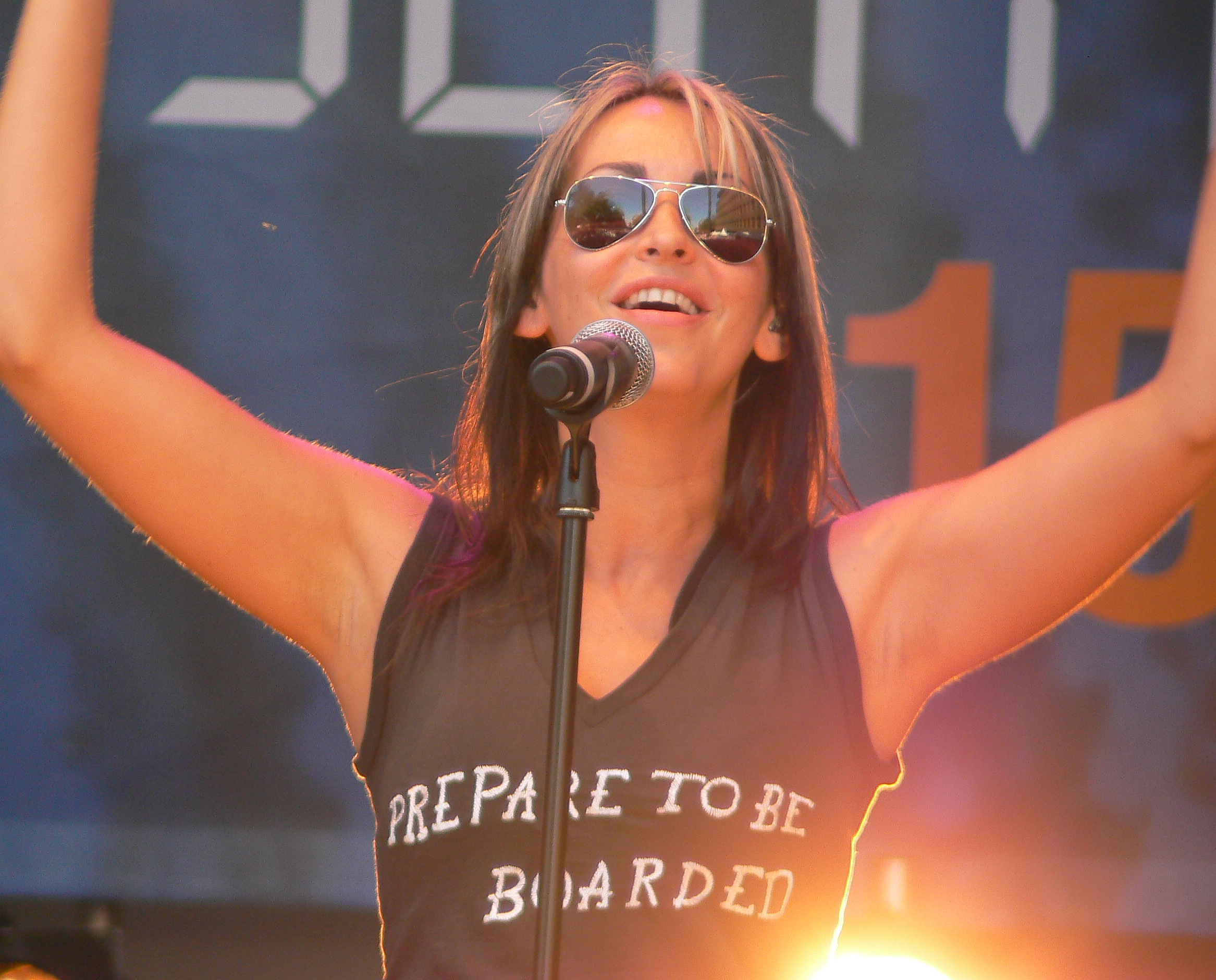 Natalie Appleton of All Saints (Girl Group)